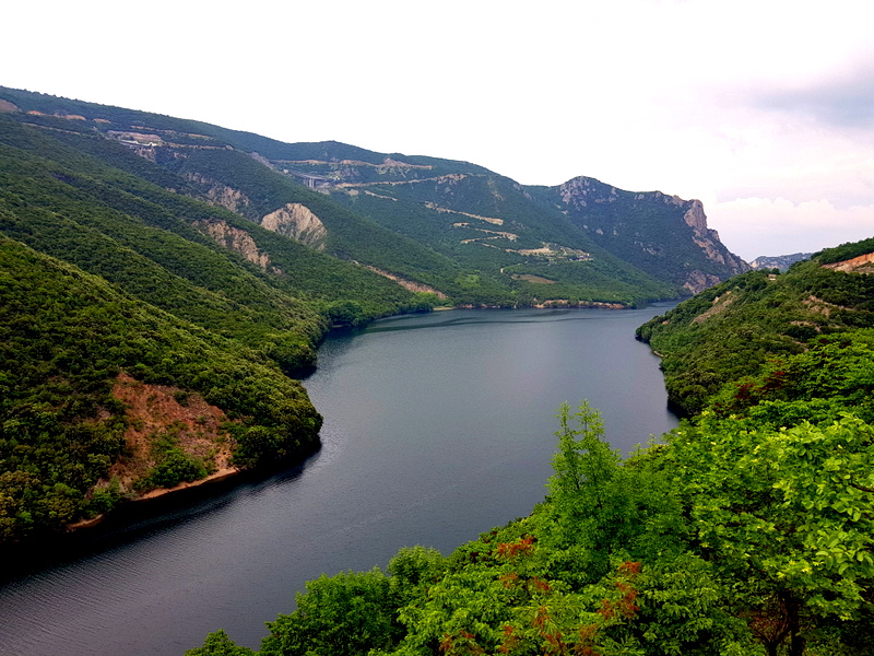 This is a photography of Natura 2000 protected area with ID GR1210002